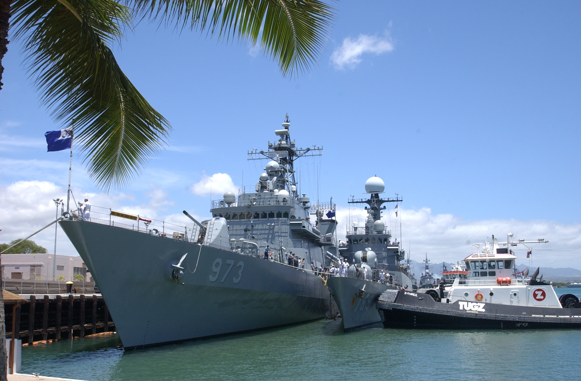 ID: DN-SD-05-02443 Service Depicted: Navy 020624-N-3228G-001 Operation / Series: RIMPAC 2002 Starboard bow view showing the Republic of Korea (KOR) Navy, KWANGGAETO THE GREAT (KDX-1) CLASS; Destroyer, YANMANCHOON (DDH 973) and the KOR Navy PO HANG CLASS: Corvette, WONJU (FS 769), being assisted by a commercial tugboat while conducting side-by-side pier side mooring operation, after arriving at Naval Station Pearl Harbor, Hawaii (HI), to participate in Exercise RIMPAC 2002. Location: PEARL HARBOR, HAWAII (HI) UNITED STATES OF AMERICA (USA)